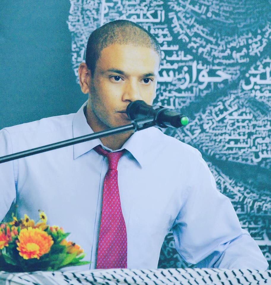 تأبين الشاعر الفلسطيني الراحل محمود درويش - السفارة الفلسطينية - بكين 2016